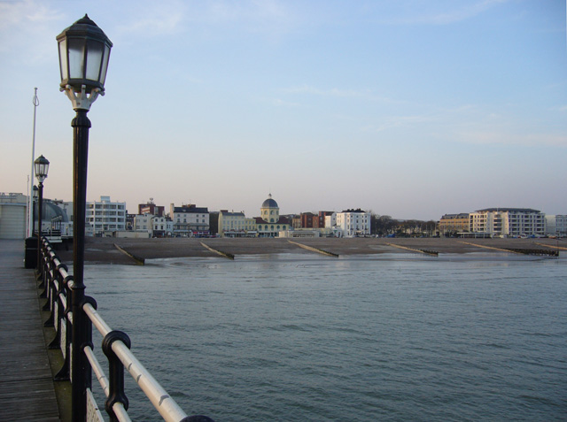 Worthing sea front from the pier In the centre of the picture is the Dome Cinema.